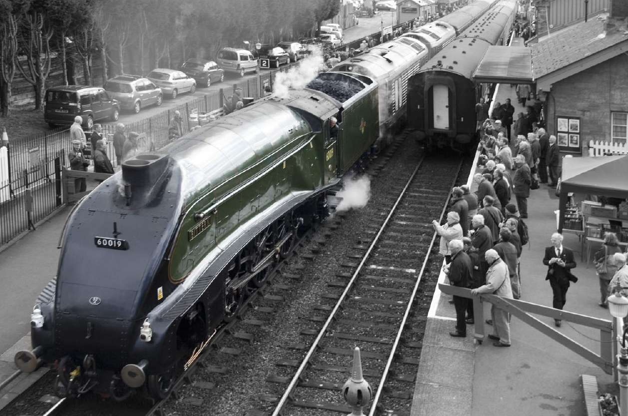 Bittern heads out of Bishops Lydiard, watched by the crowds.